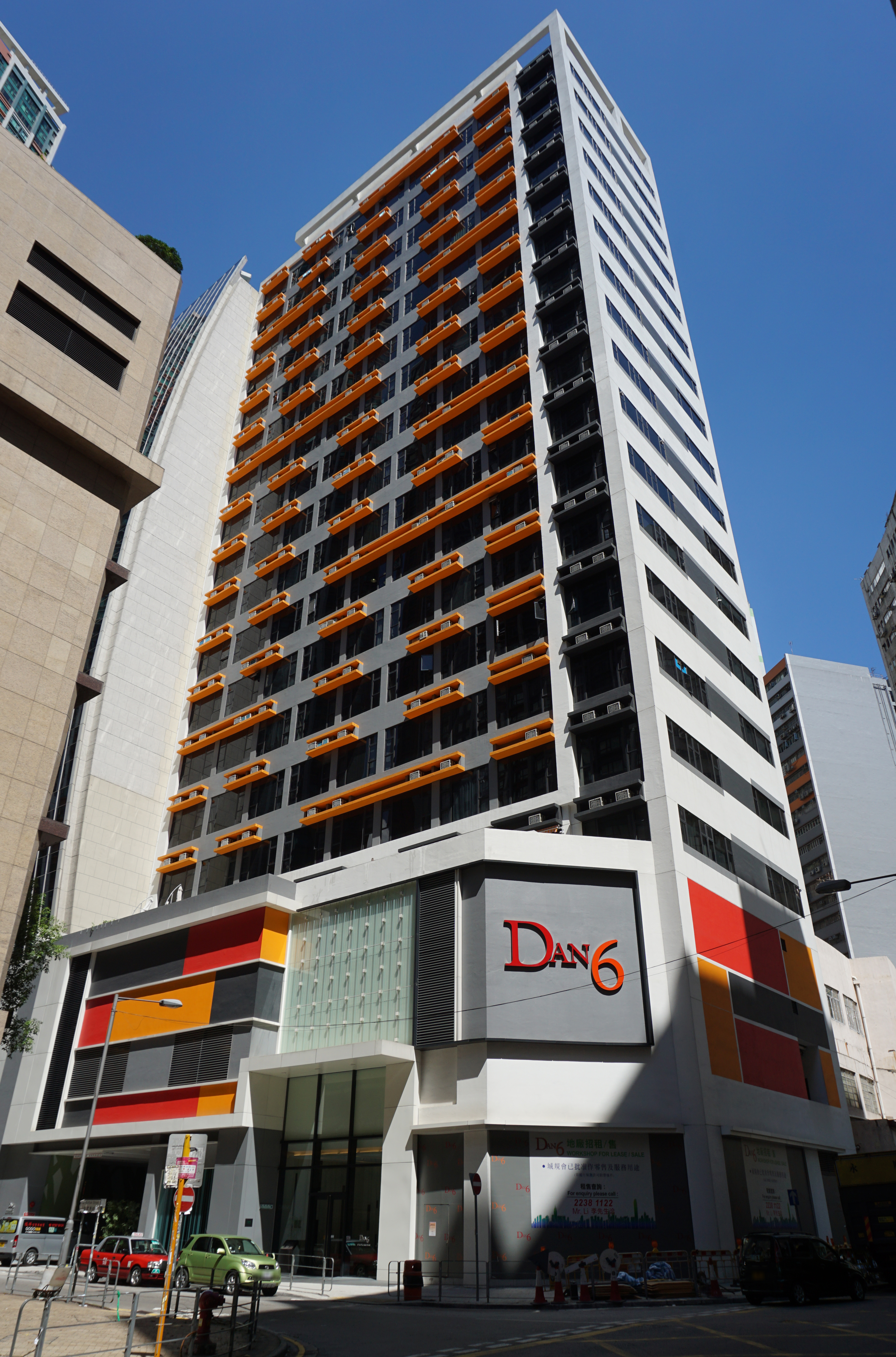 DAN6 in Tsuen Wan, Hong Kong.